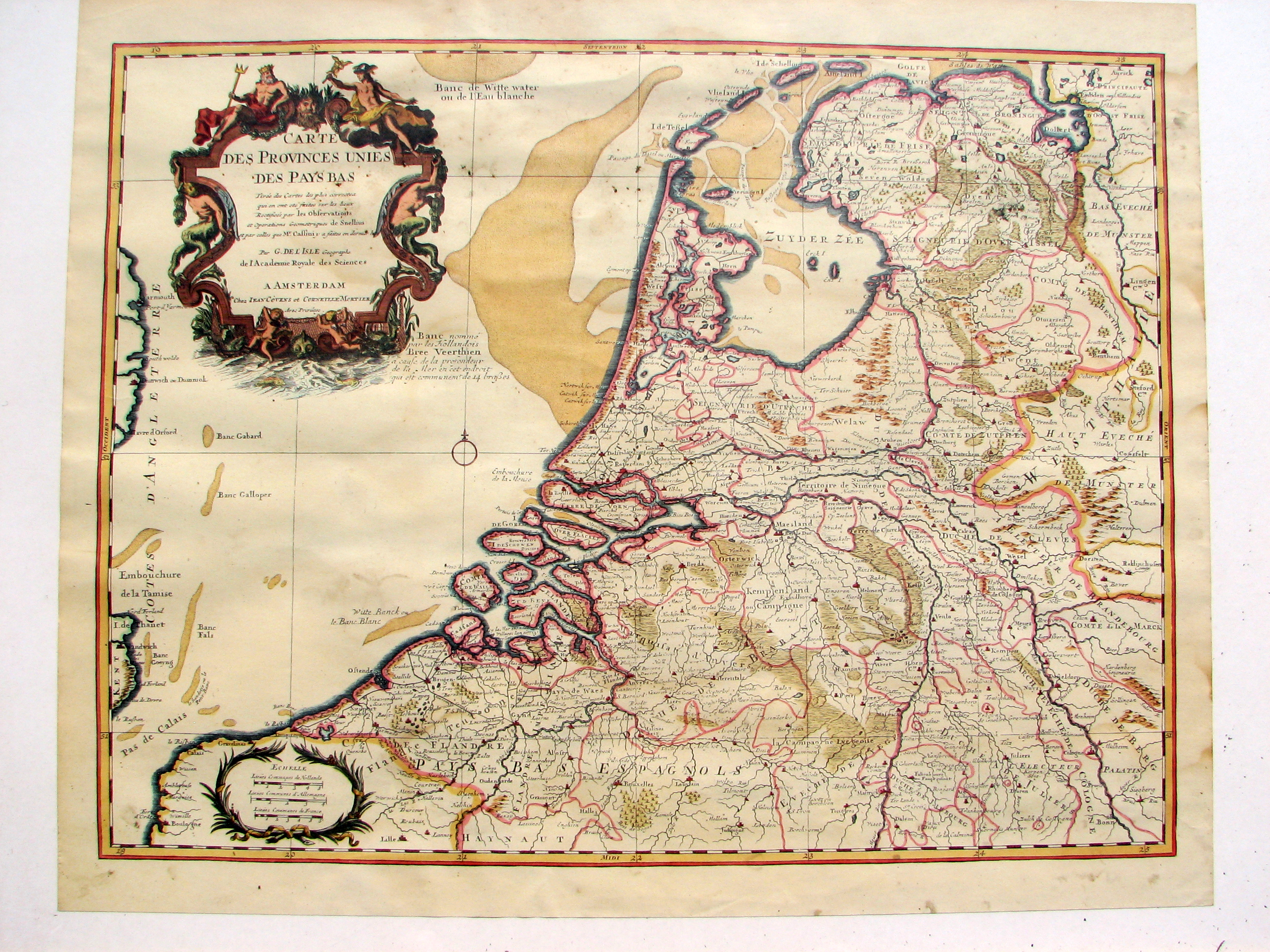 Map of The Netherlands, publication date circa 1743